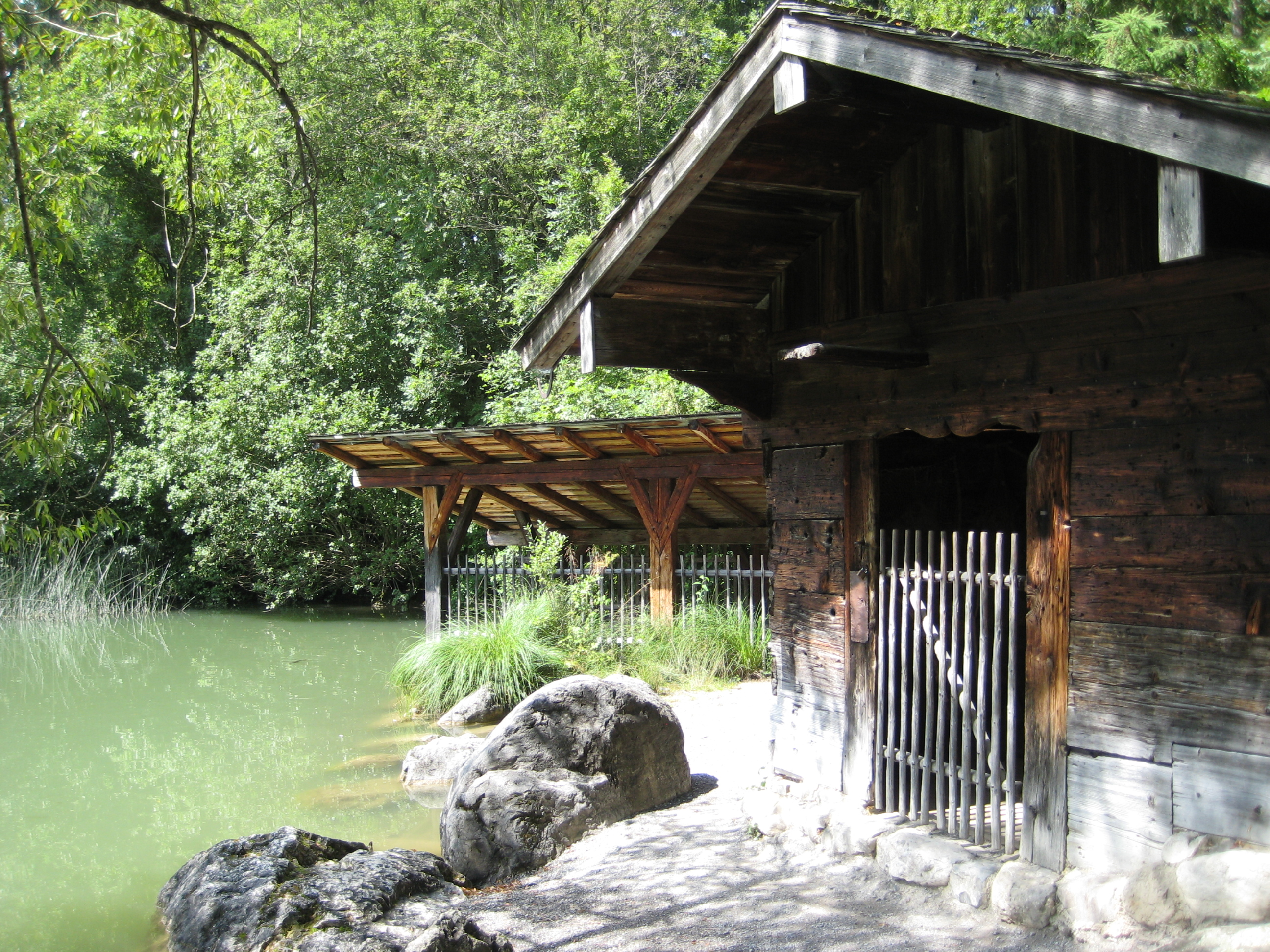 Fishing hut from Kochel, Kochel municipality, county Tölz. Probably in the 18th Built century. The log house was originally a granary, but was transferred in 1900 to the Kochelseeufer where it is used as a fishing hut.